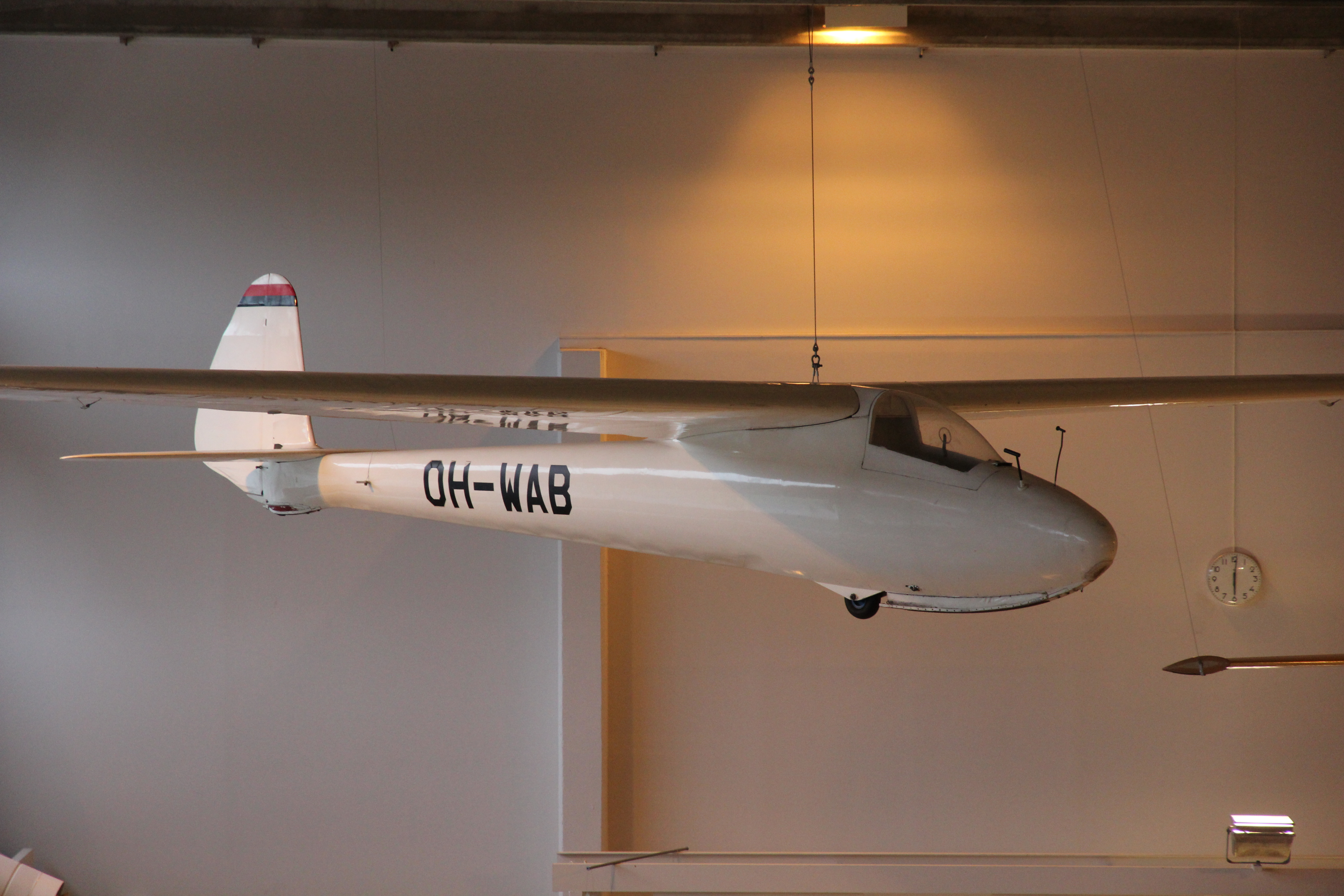 DFS Weihe (OH-WAB) glider in the Aviation Museum of Central Finland.